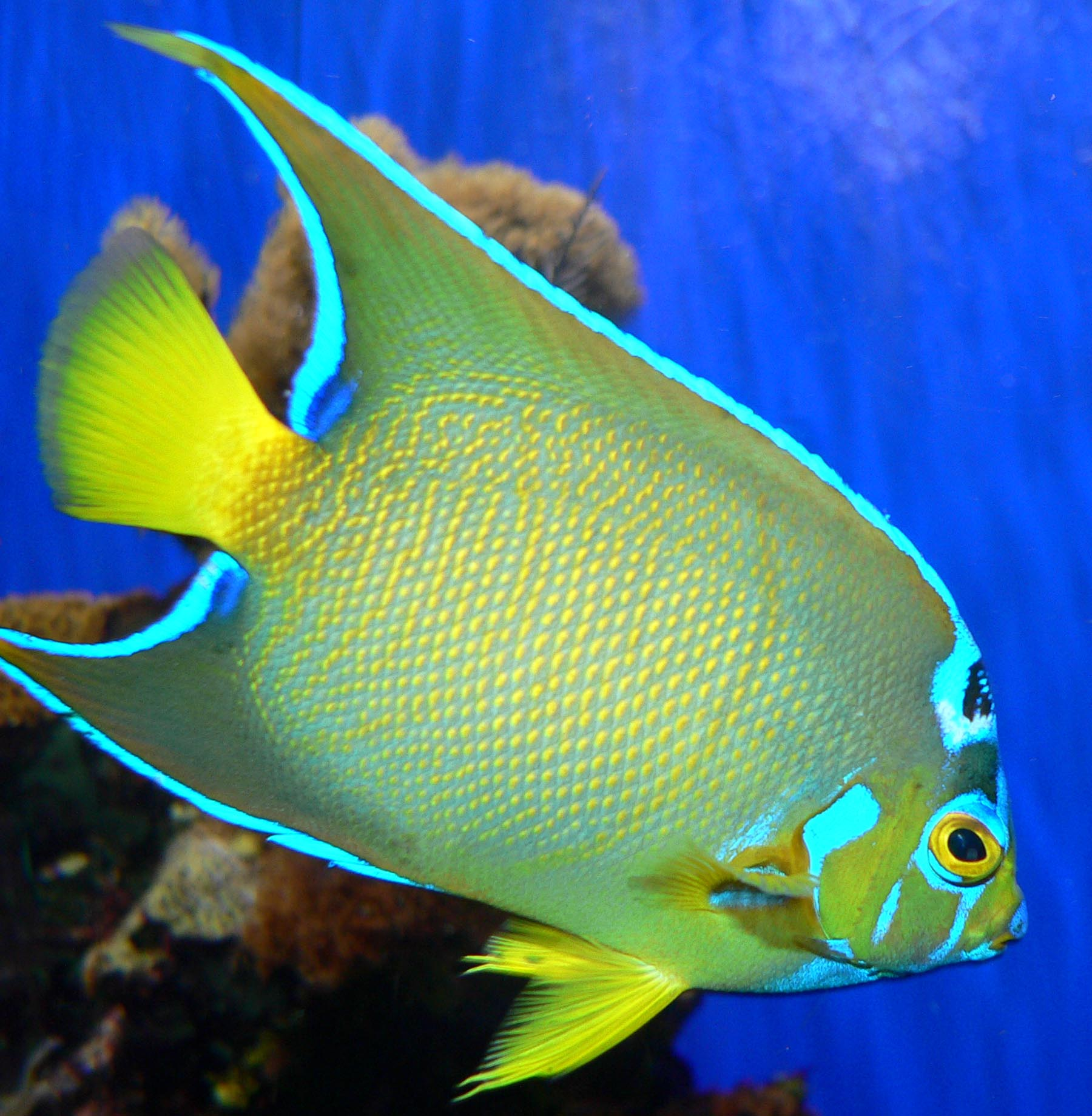 Photo of Holacanthus ciliaris at the Birch Aquarium in San Diego